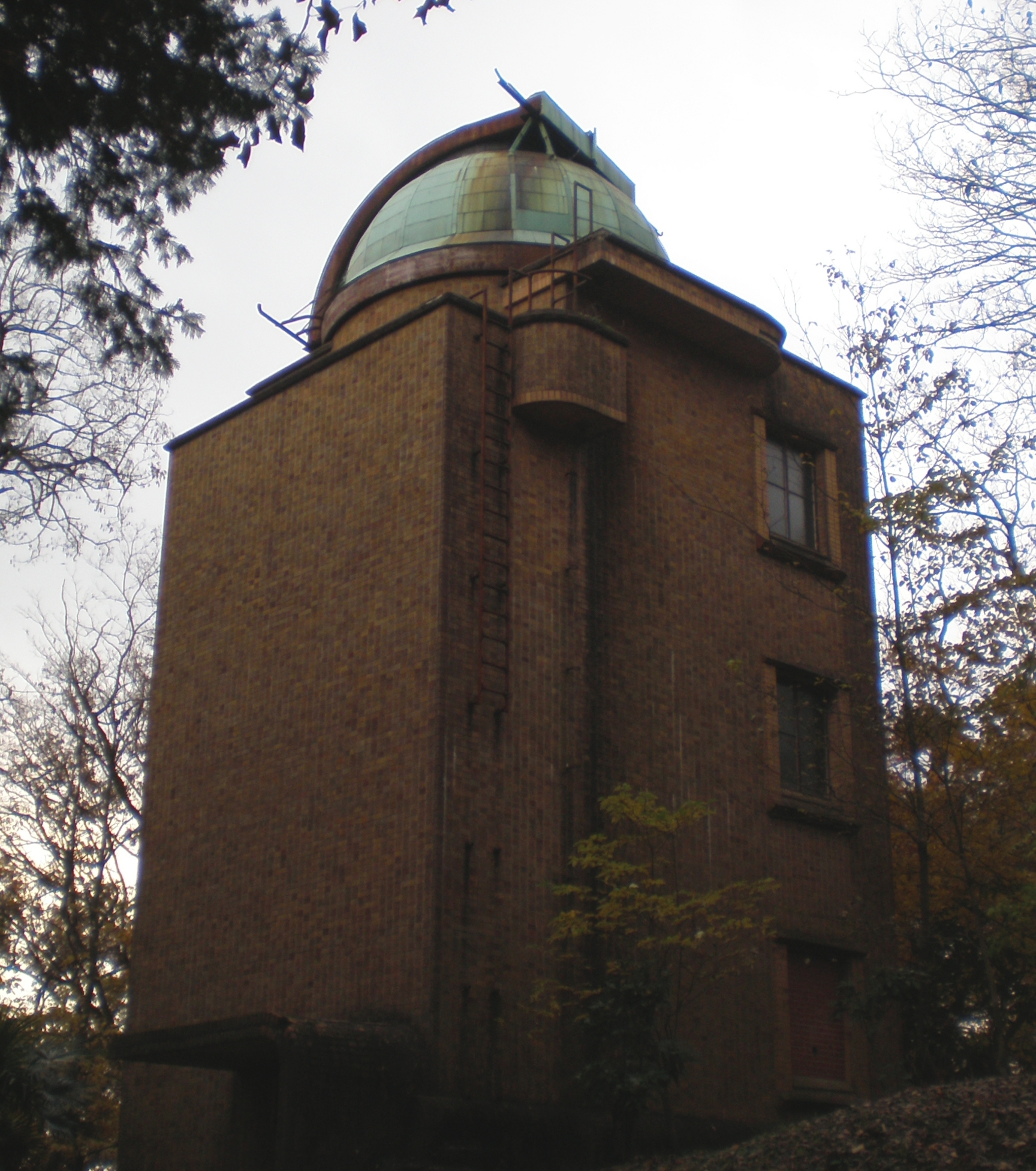 Solar Tower Telescope at Mitaka Campus, National Astronomical Observatory of Japan.